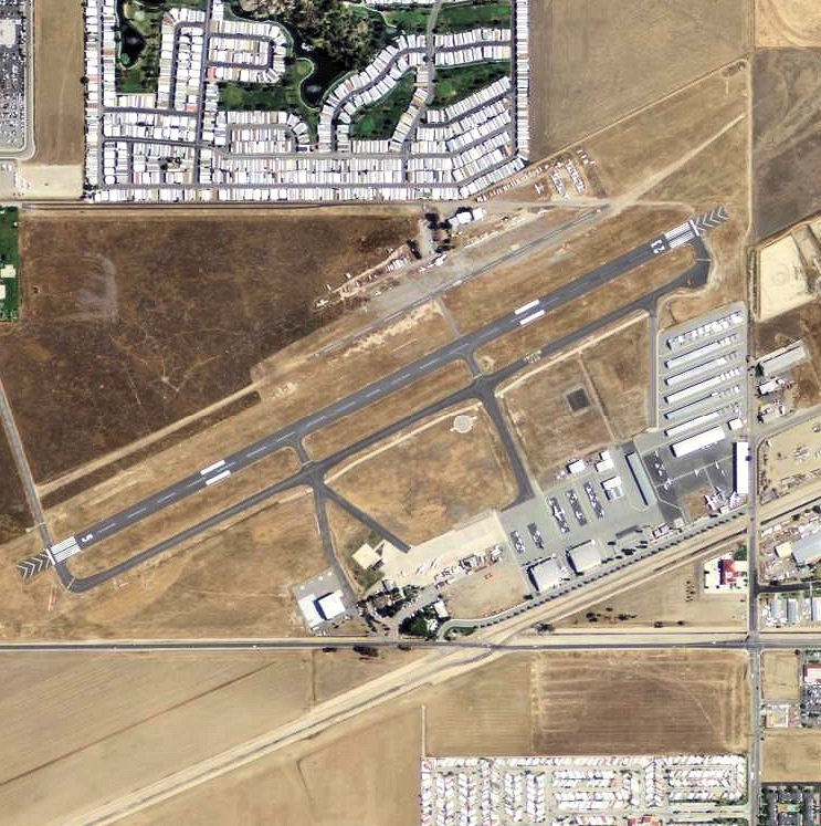 USGS digital orthophoto of Hemet-Ryan Airport in California